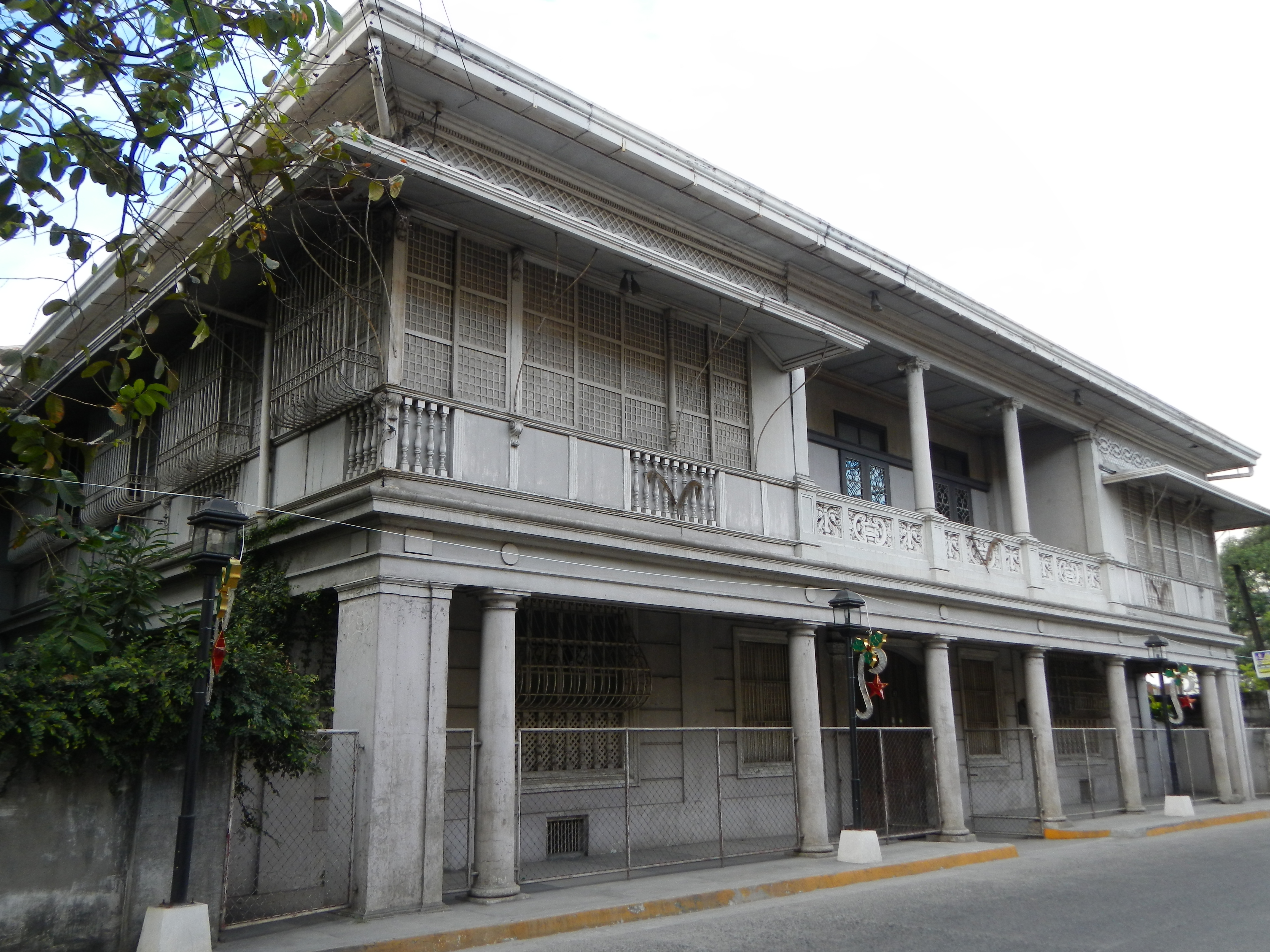 Hizon-Singian House[1]